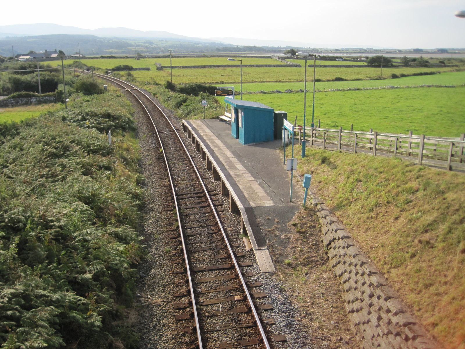 Llandanwg railway station, Gwynedd. Opened in 1929 on the Great Western Railway's line from Machynlleth to Pwllheli. View south east towards Pensarn and Machynlleth. It may be diminutive but it boasted an electronic passenger information screen and through trains to Birmingham, at the time this image was taken.